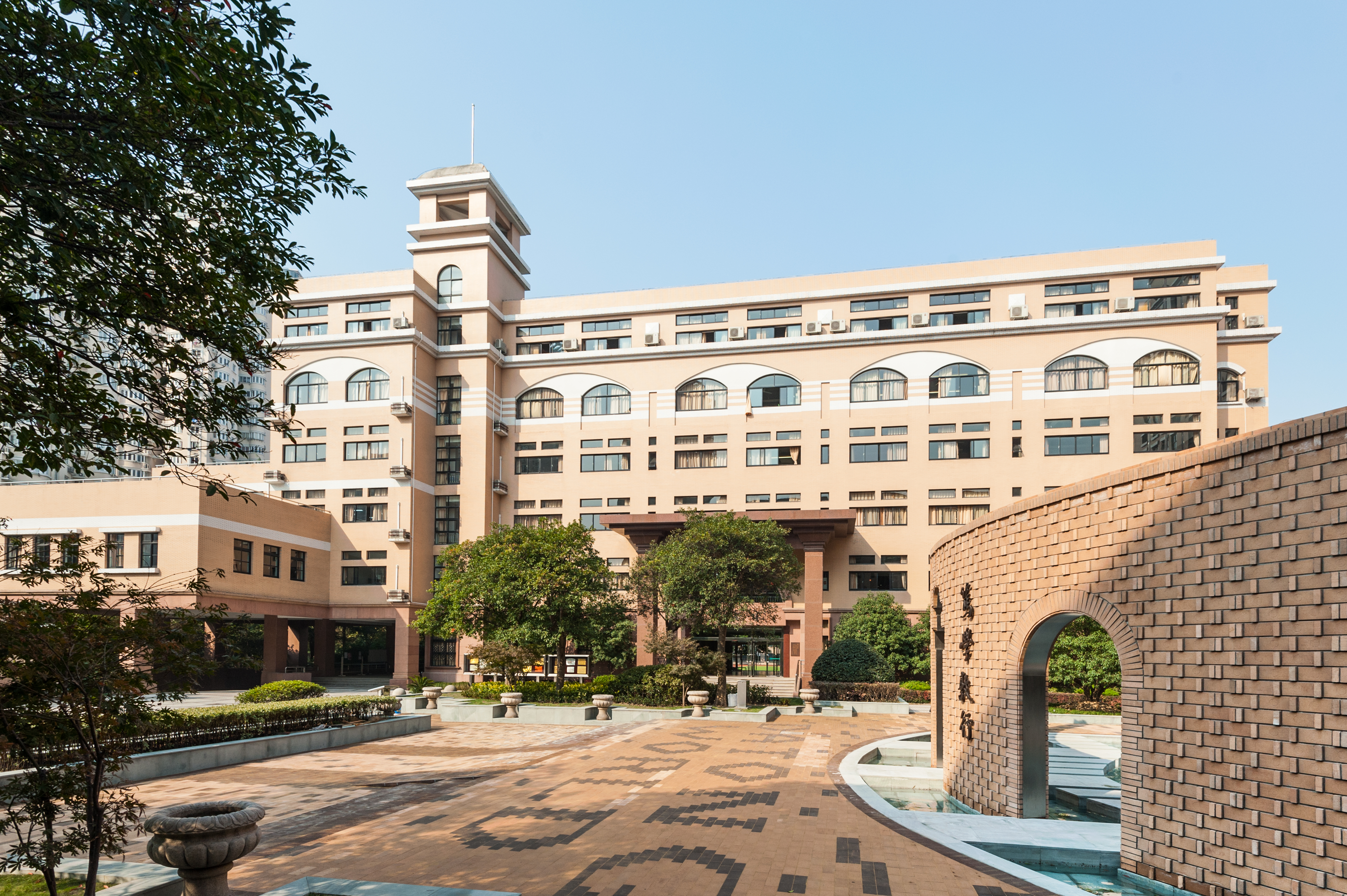 Datong High School